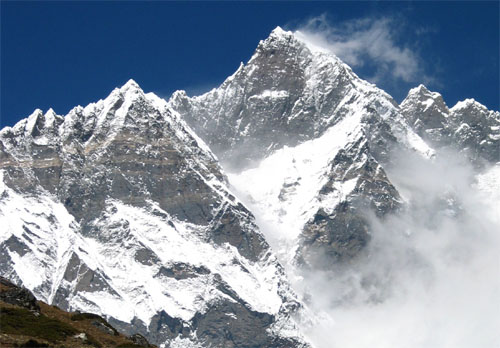 Lhotse as seen from the climb up to Chhukung Ri.